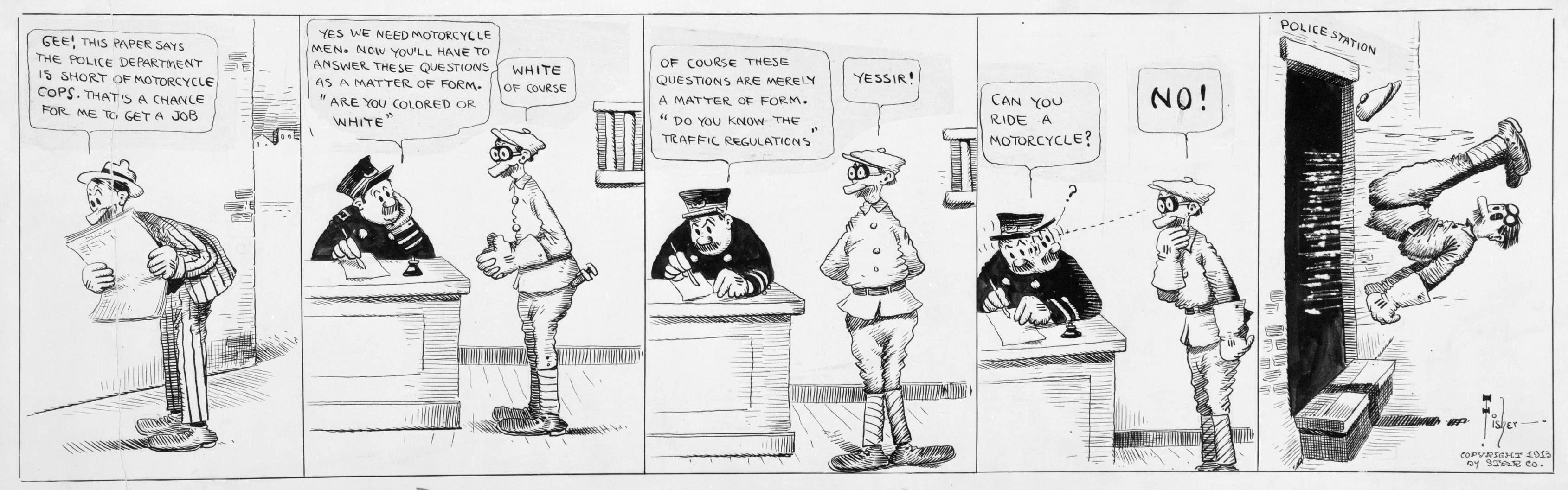 Mutt and Jeff comic strip. "Five-frame comic strip. Mutt reads that the police department needs motorcycle cops, and heads over to the station for an interview. He passes every test but one, he cannot drive a motorcycle."